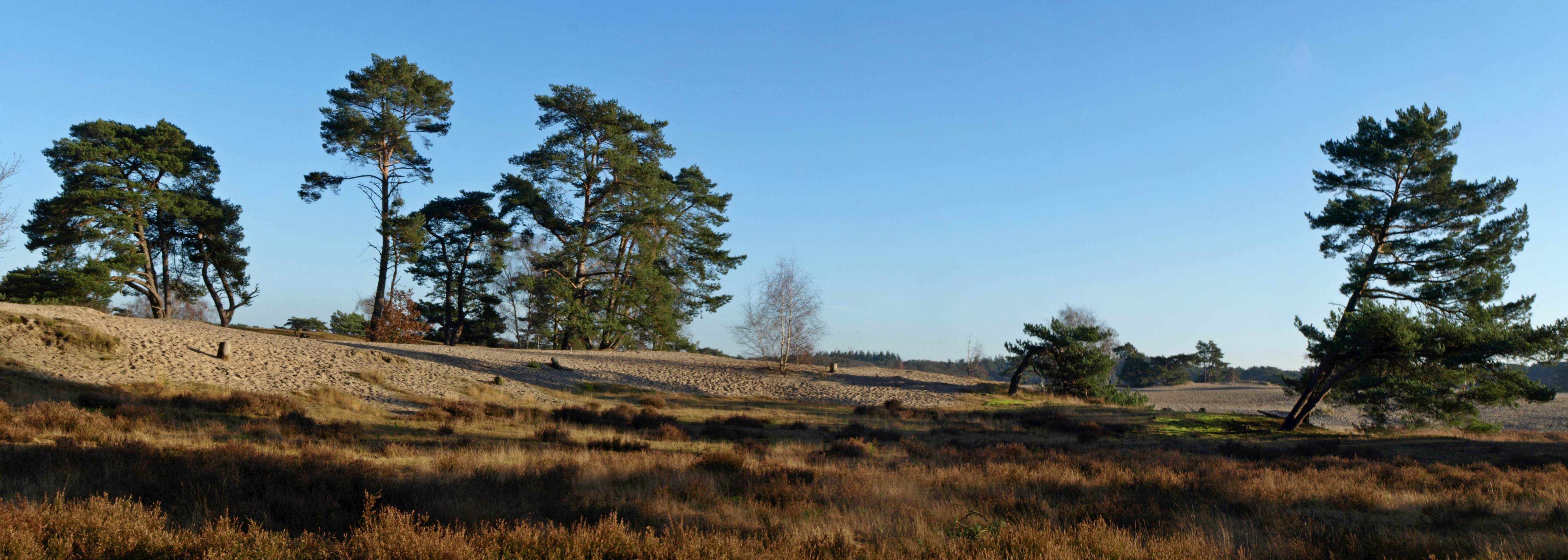 Lange Duinen, Soest Nl with Scots pine Pinus sylvestris and silver birch Betula pendula